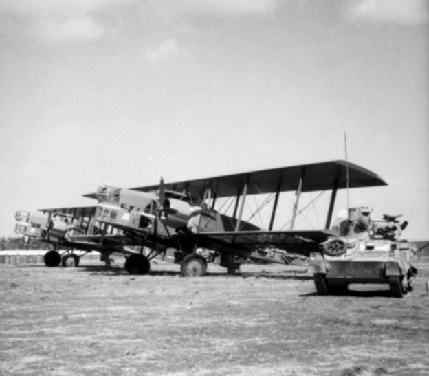 Two captured French Liore-Olivier LeO H258 bombers at Aleppo airfield, Syria. The tank in front was assigned to the Australian 9th Division.